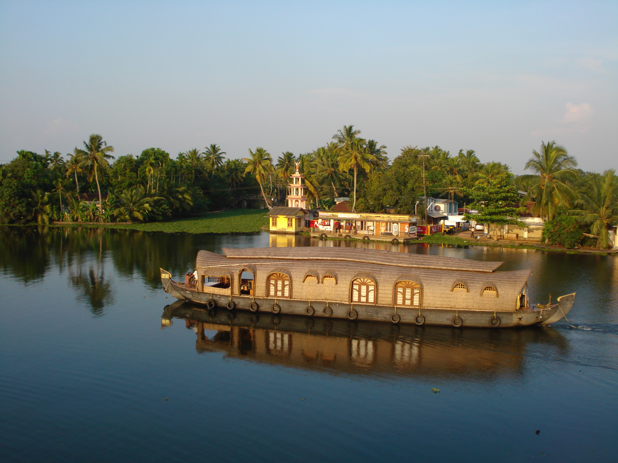 A view of Kuttanad. Kuttanad is a region of rivers and back waters of Kerala.